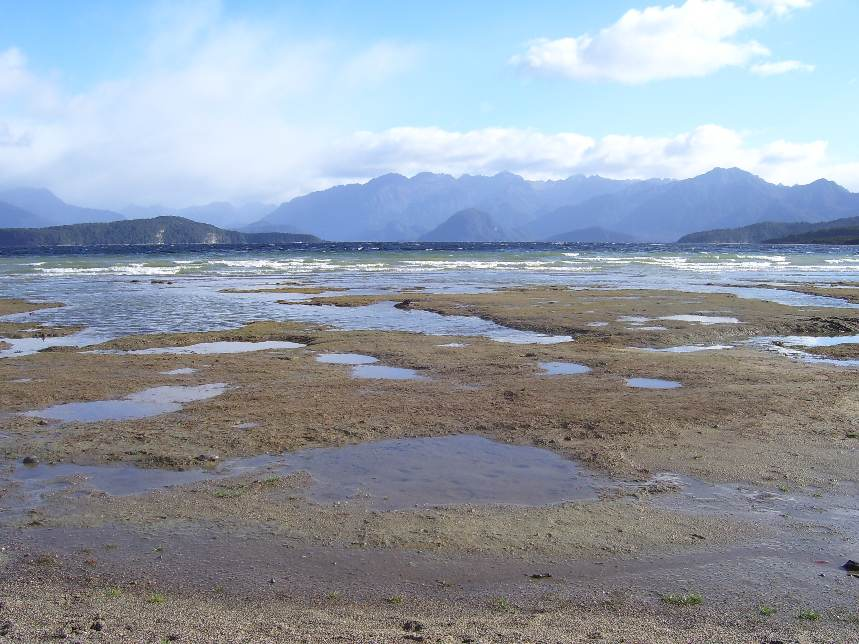 Mud Flats at Lake Manapouri, North end of Frasers Beach